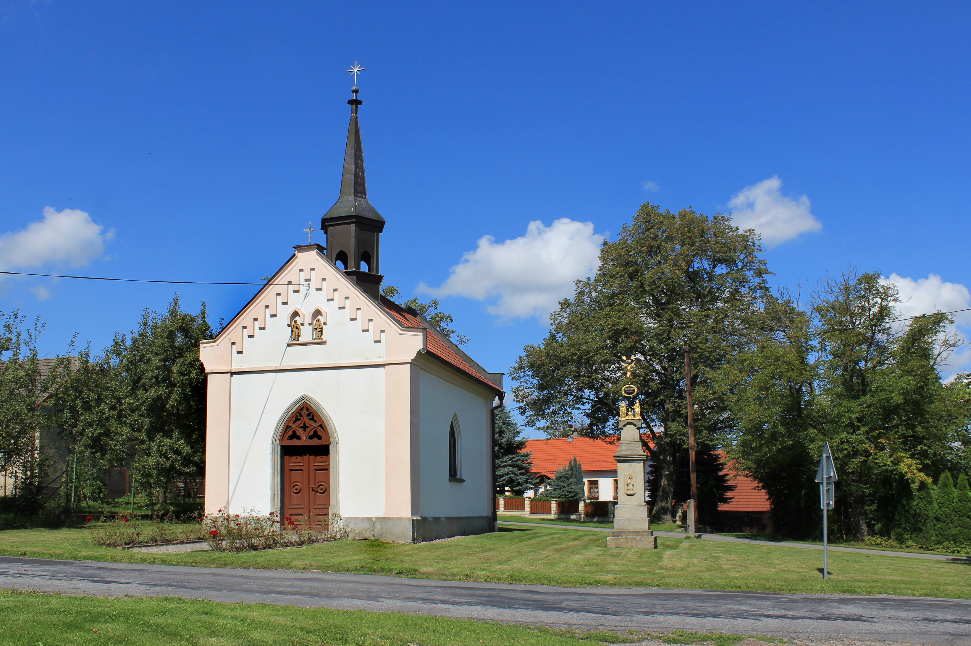 Chapel in the upper part of Chotěnov, Czech Republic.